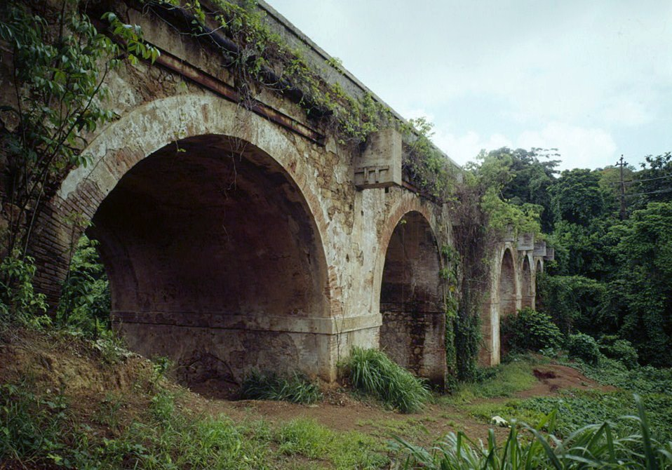 Puente de los Frailes — spanning Frailes Creek, PR Route 873, KM 18.85, Tortugo (San Juan County, Puerto Rico). Also known as General Norzagaray Bridge Image: (1977): HAER—Historic American Engineering Record images of Puerto Rico, cropped.